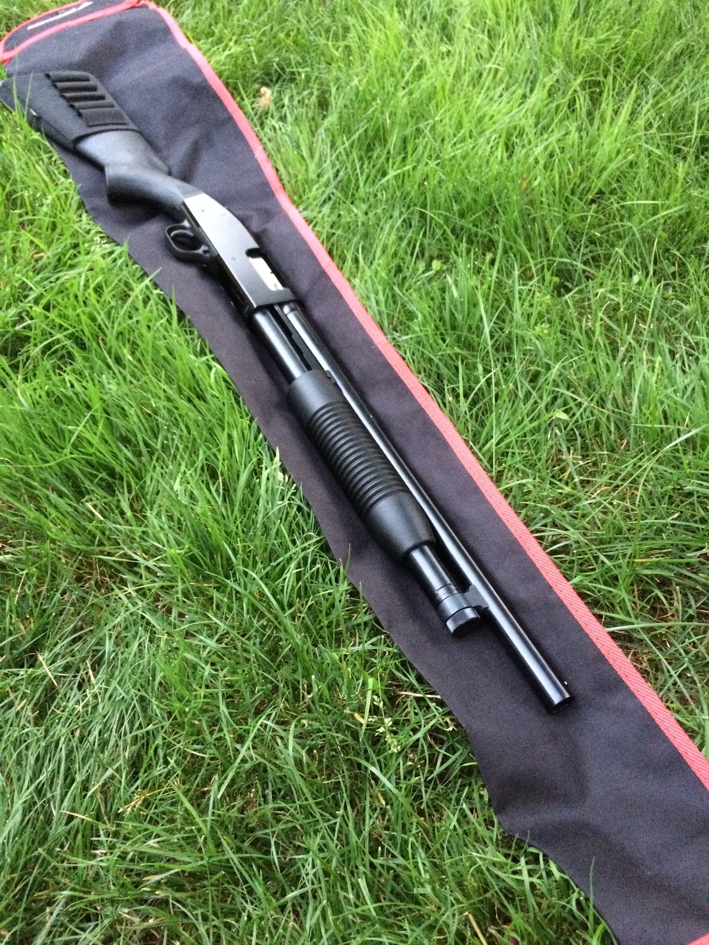 Le maverick 88 dans sa version la plus courante.